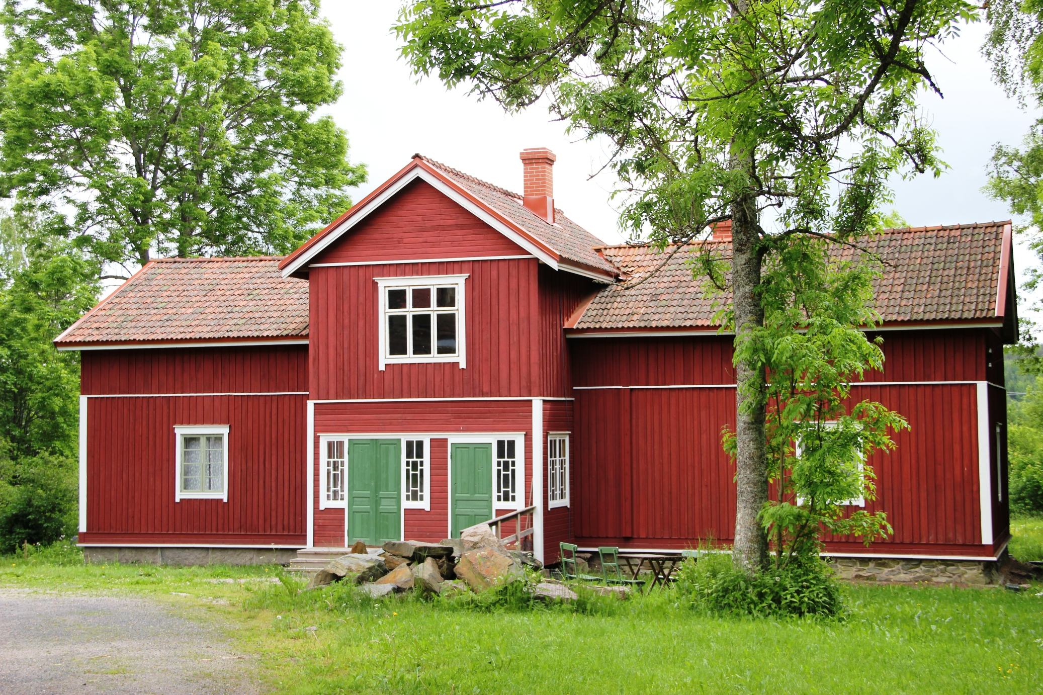 Falla House inSagalund Museum, Kimito, Finland